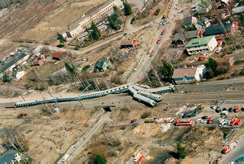 Train Accident in Jokela, Tuusula, Finland on the April 21st, 1996.